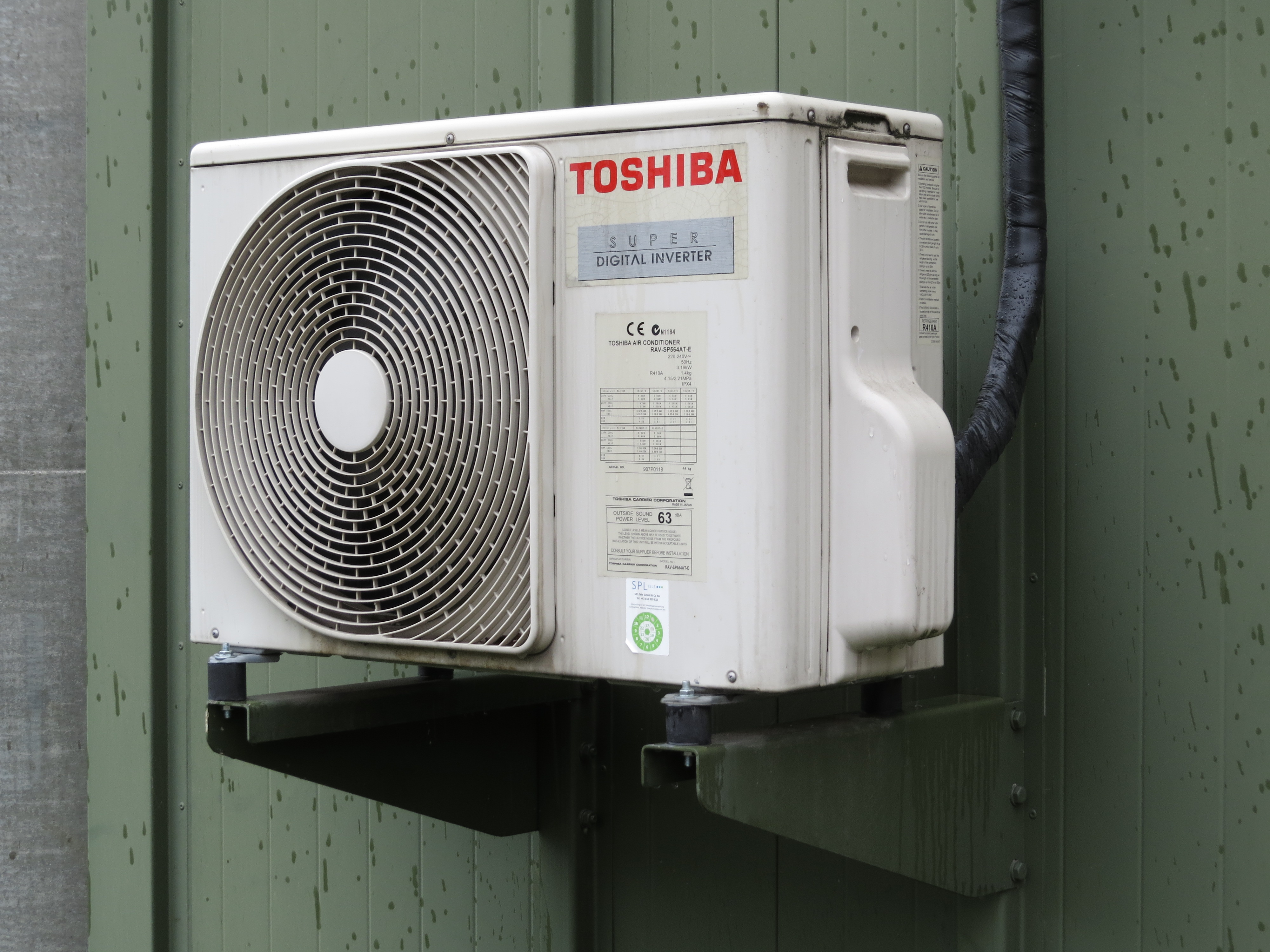 Air conditioner Toshiba RAV-SP564AT-E at Bahnhof Melk